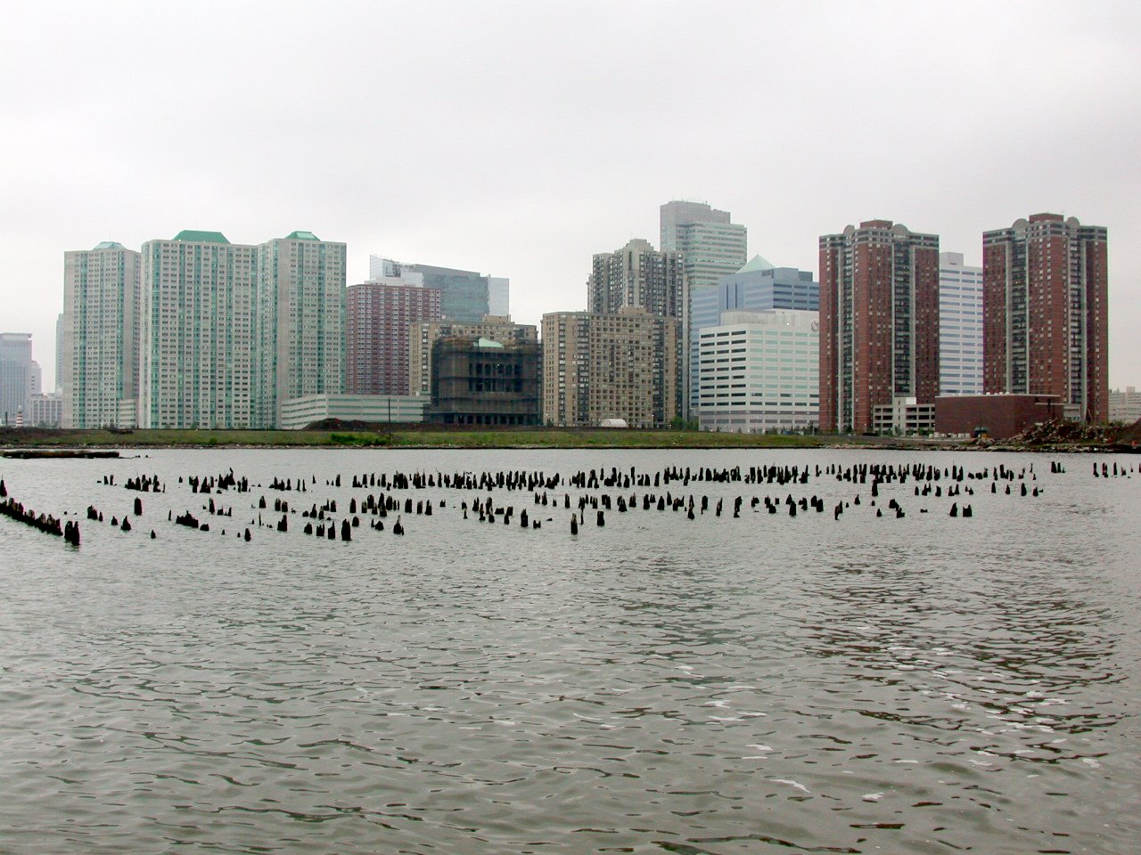 Jersey City, New Jersey, seen from the ferry to Manhattan. Picture taken by: F. Bucher